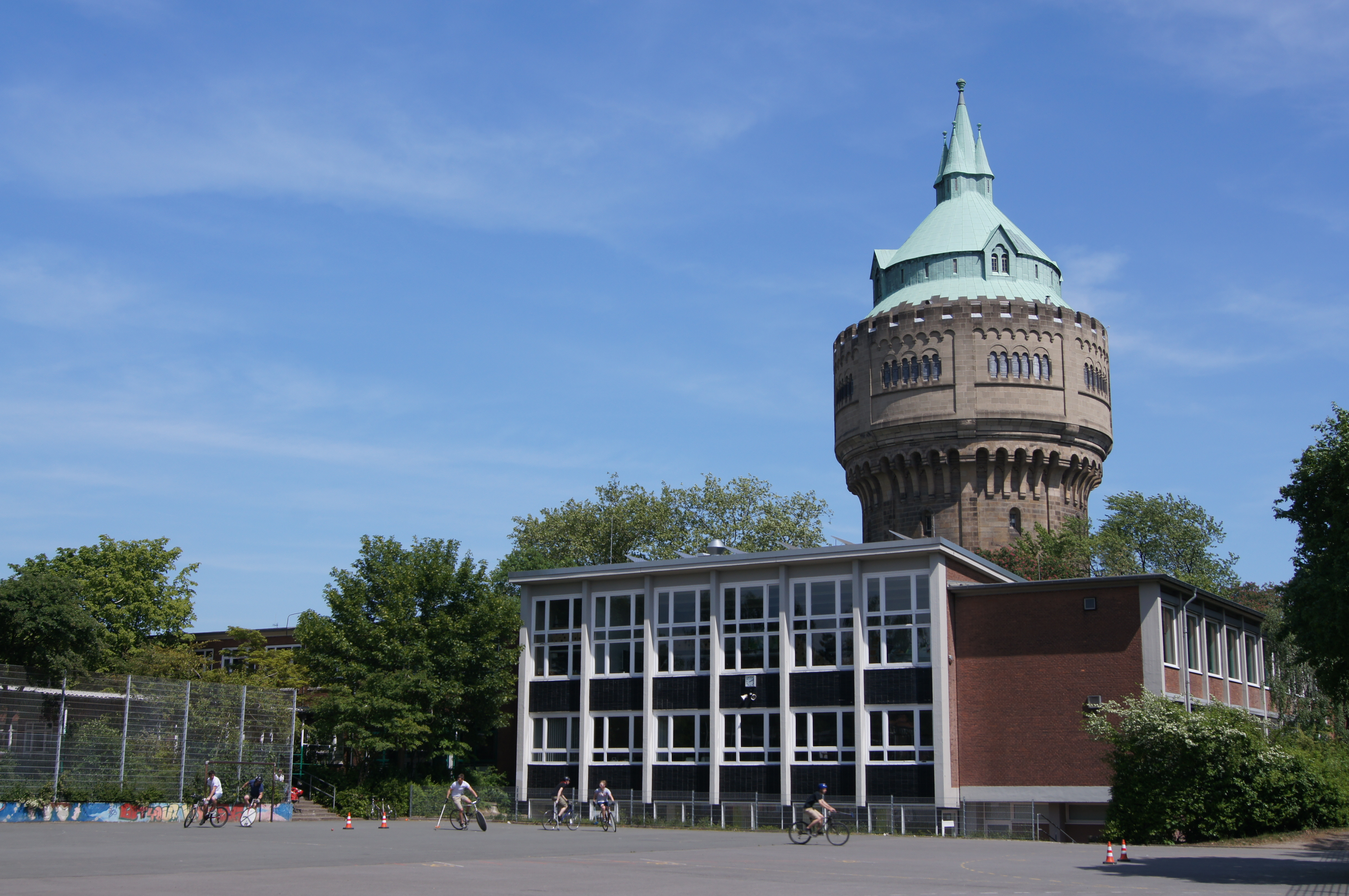 School yard of the Wilhelm Hittory Gymnasium in Münster, Germany.